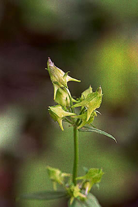 Halenia deflexa at Isle Royale National Park, Michigan, USA